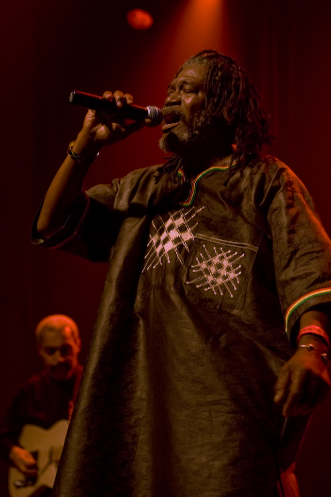 Horace Andy, at Het Depot for Drieduizend.